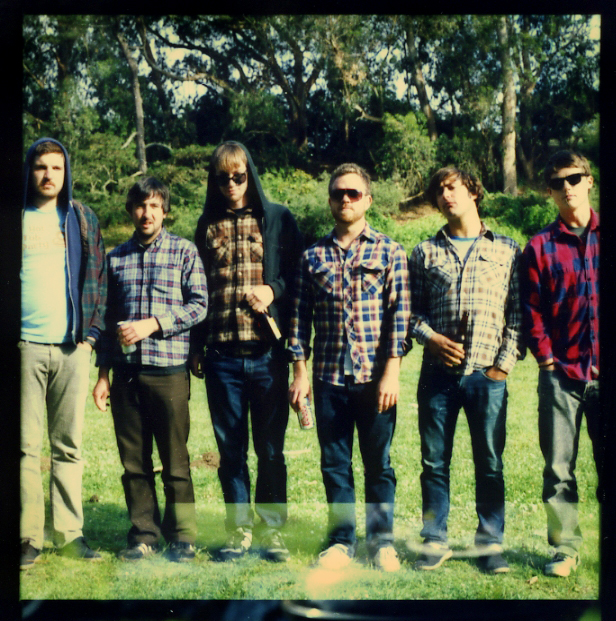 Young boys in flannel shirths.